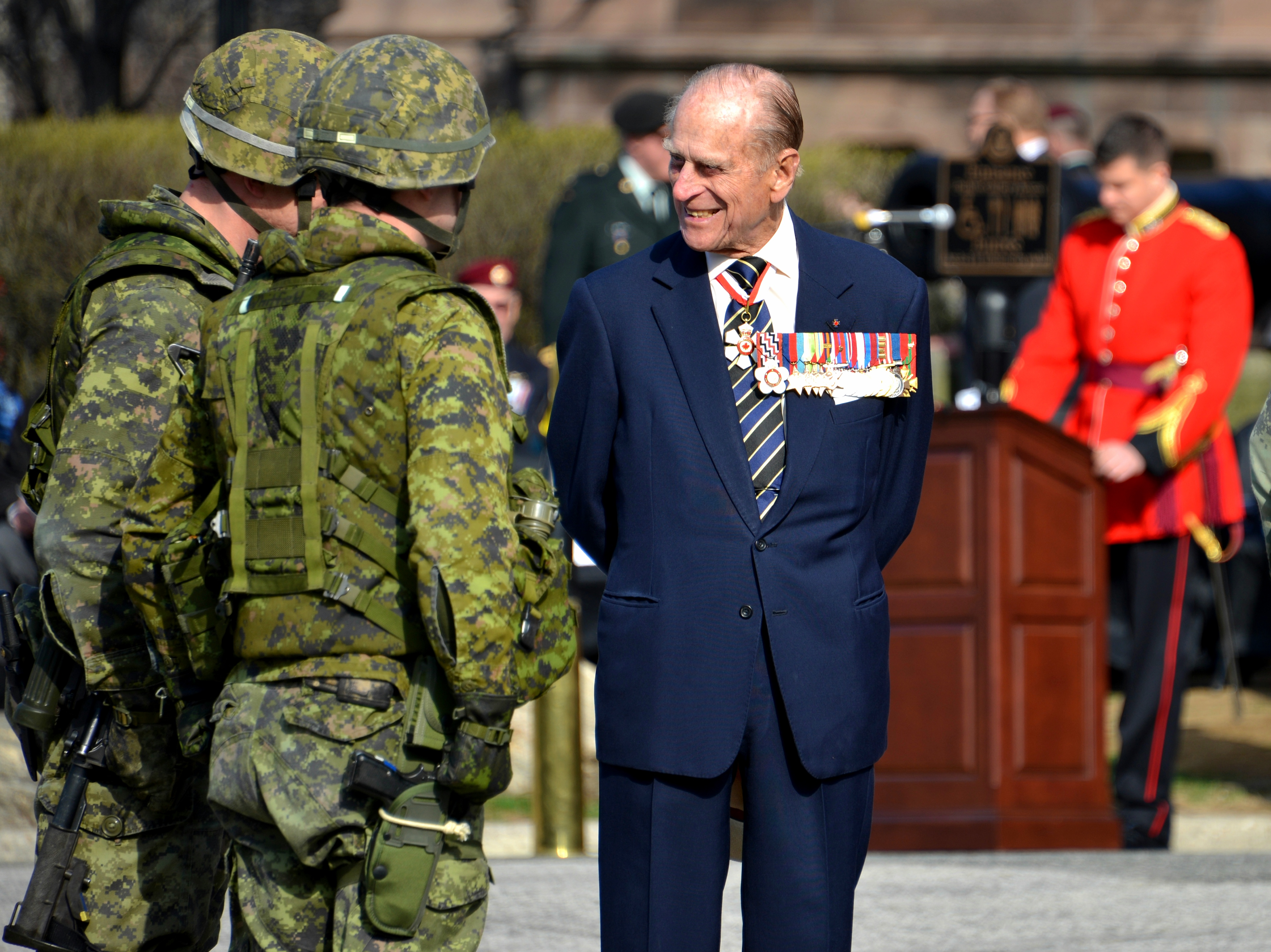 The Duke of Edinburgh, Colonel-in-Chief of the Royal Canadian Regiment, presenting the 3rd Battalion with their Regimental Colours.